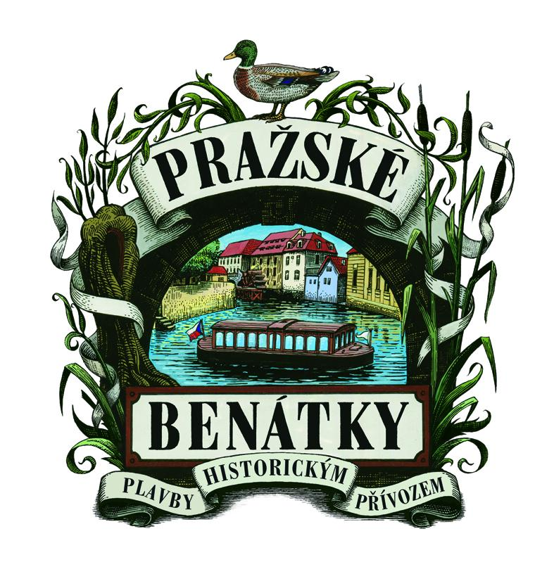 Logo Pražské Benátky jpg